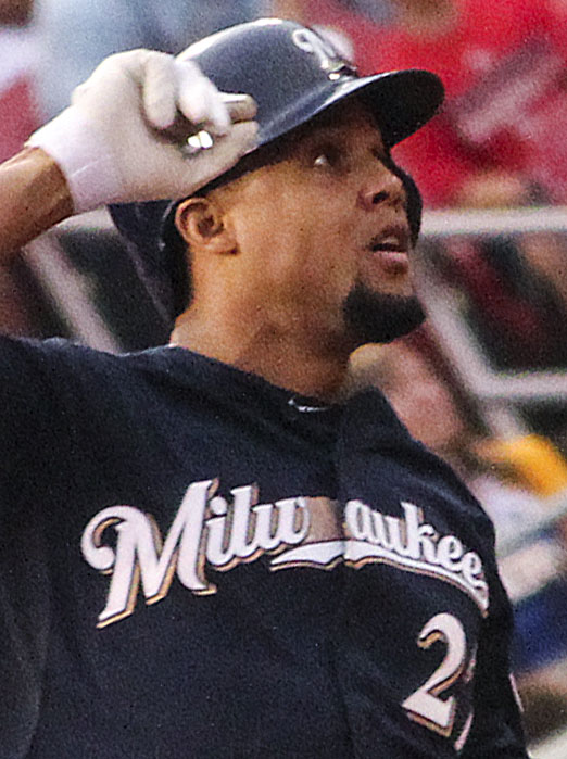 Carlos Gómez of the Brewers